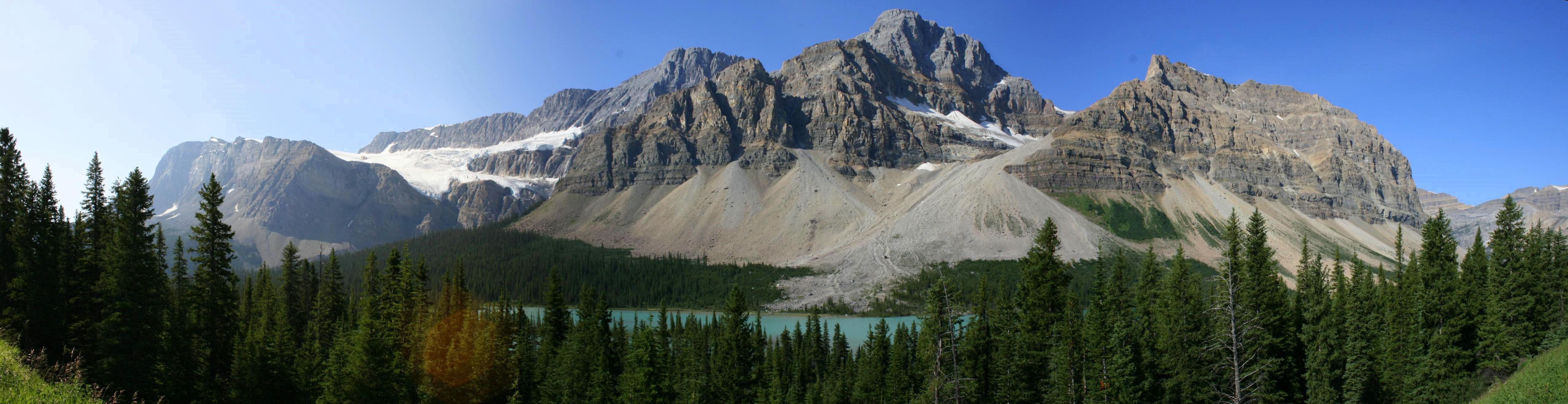 Jasper National Park Crowfoot Mountain behind Bow Lake, Banff National Park, Alberta